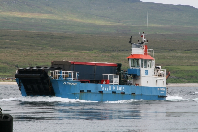 MV Eilean Dhiura, the small, Argyll and Bute Council ferry, that operates between Islay and Jura, just completing yet another five minute trip, arriving at Port Askaig on Islay. The crew had a break after this trip to allow the much larger ferry, MV Hebridean Isles, from the mainland to dock. Eilean Dhiuras' slipway has been revamped and the ferry can no longer access it at low tide! The small ferry now has to dock at the large, hydraulically adjustable slipway normally used by the large ferries.